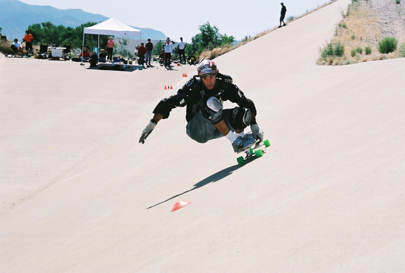 Jason Mitchell skateboarding banked slalom in New Mexico